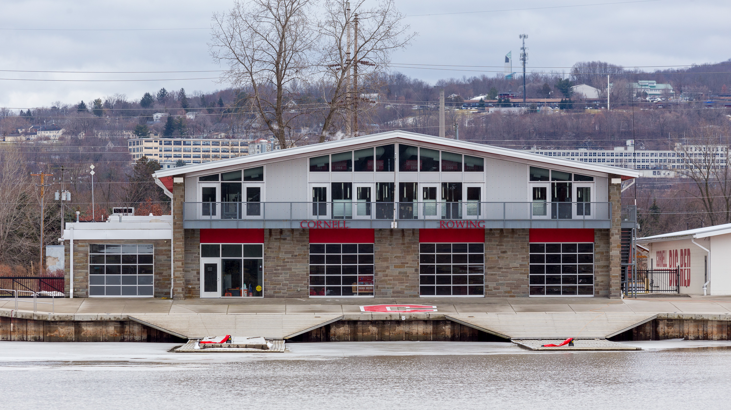 Collyer Boathouse, Cornell University. Built 1957, renovated 2011.